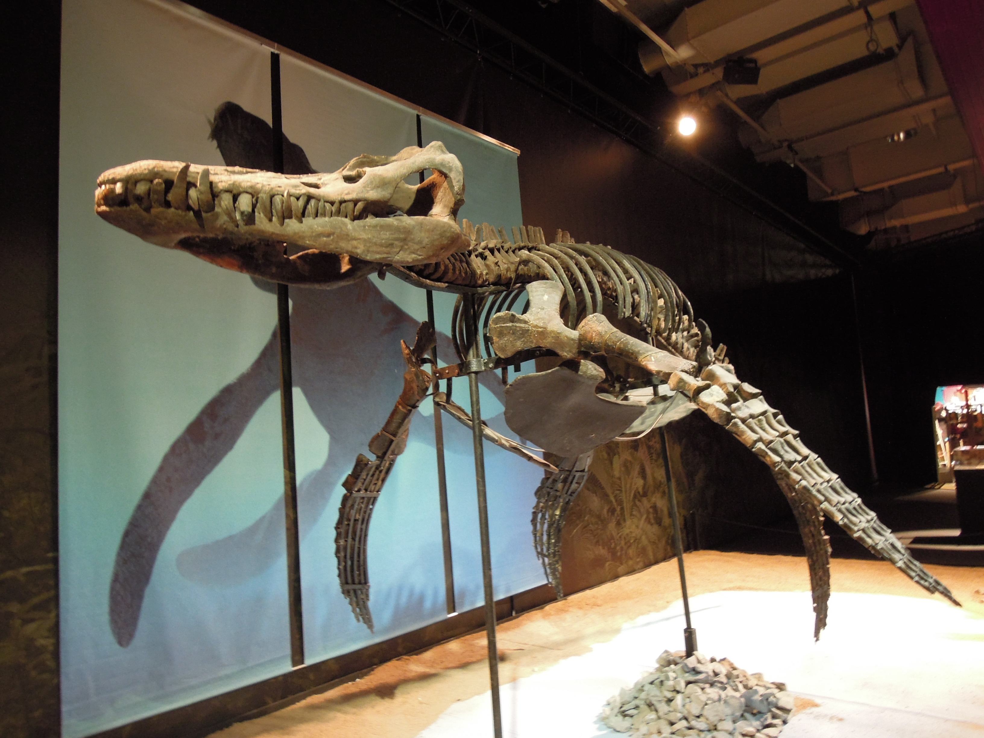 Liopleurodon rossicus, Dinosaurium exhibition, Prague, Czech Republic